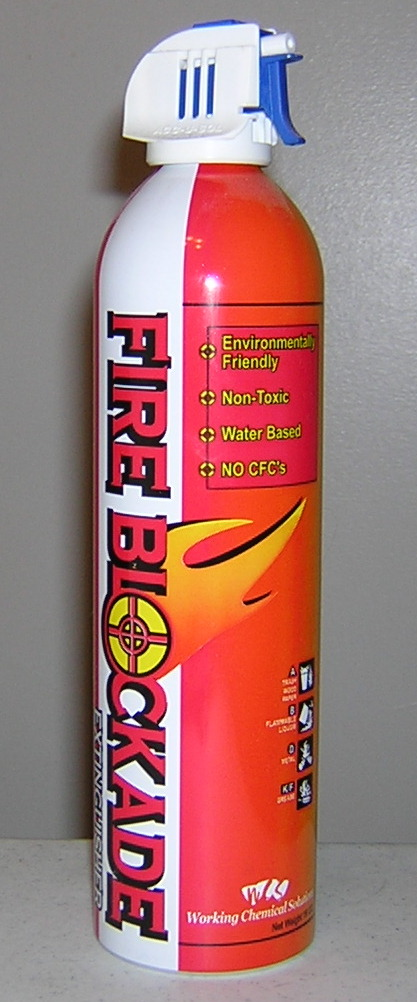 Class A/B/D/K/F Fire Blockade Retail Extinguisher